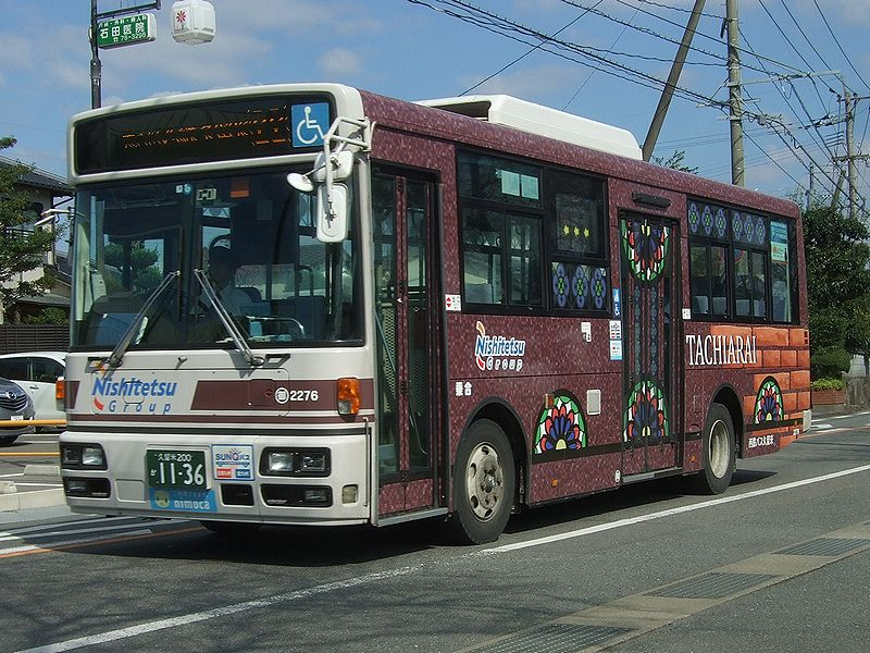 Company:Nishitetsu Bus Kurume Use:transit bus Belongs to:Miimachi Depot Car license:FOR 200 KA 1136 Code:2276 Chassis manufacturer:Isuzu Motors Coachbuilder:Nishinippon Shatai Kogyo Location:in Kitano Town, Kurume City, Fukuoka, Japan.